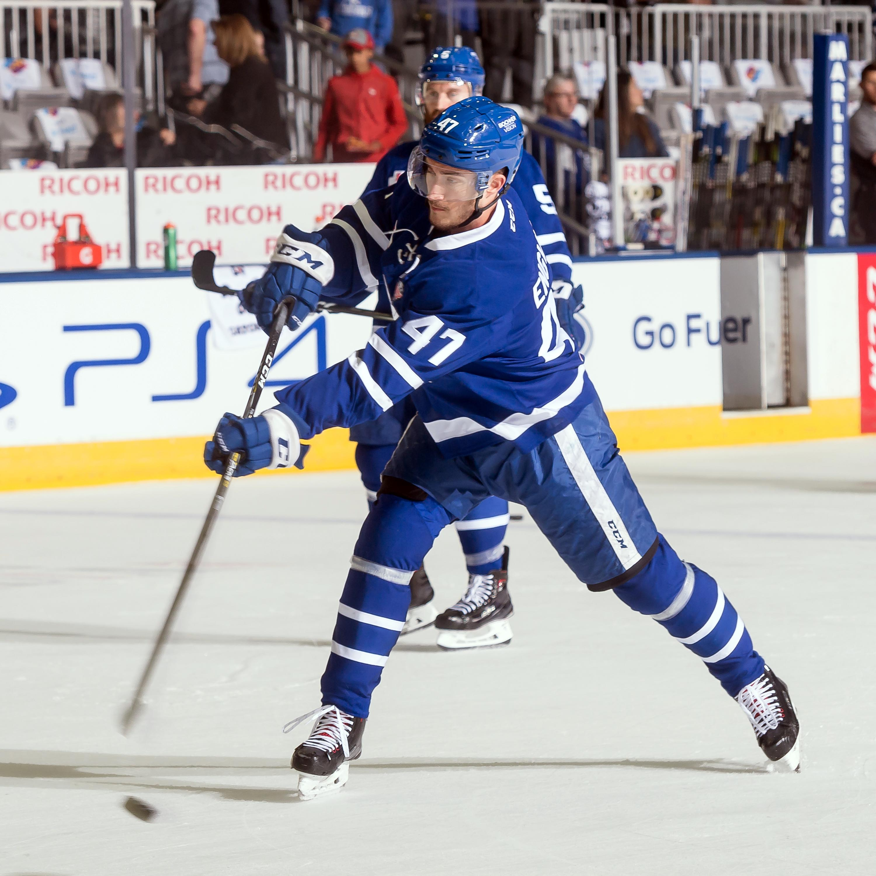 Photo: Christian Bonin